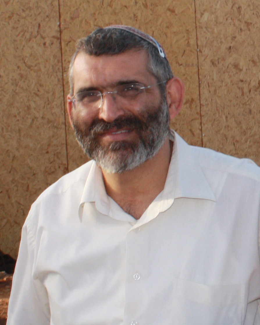 Michael Ben Ari